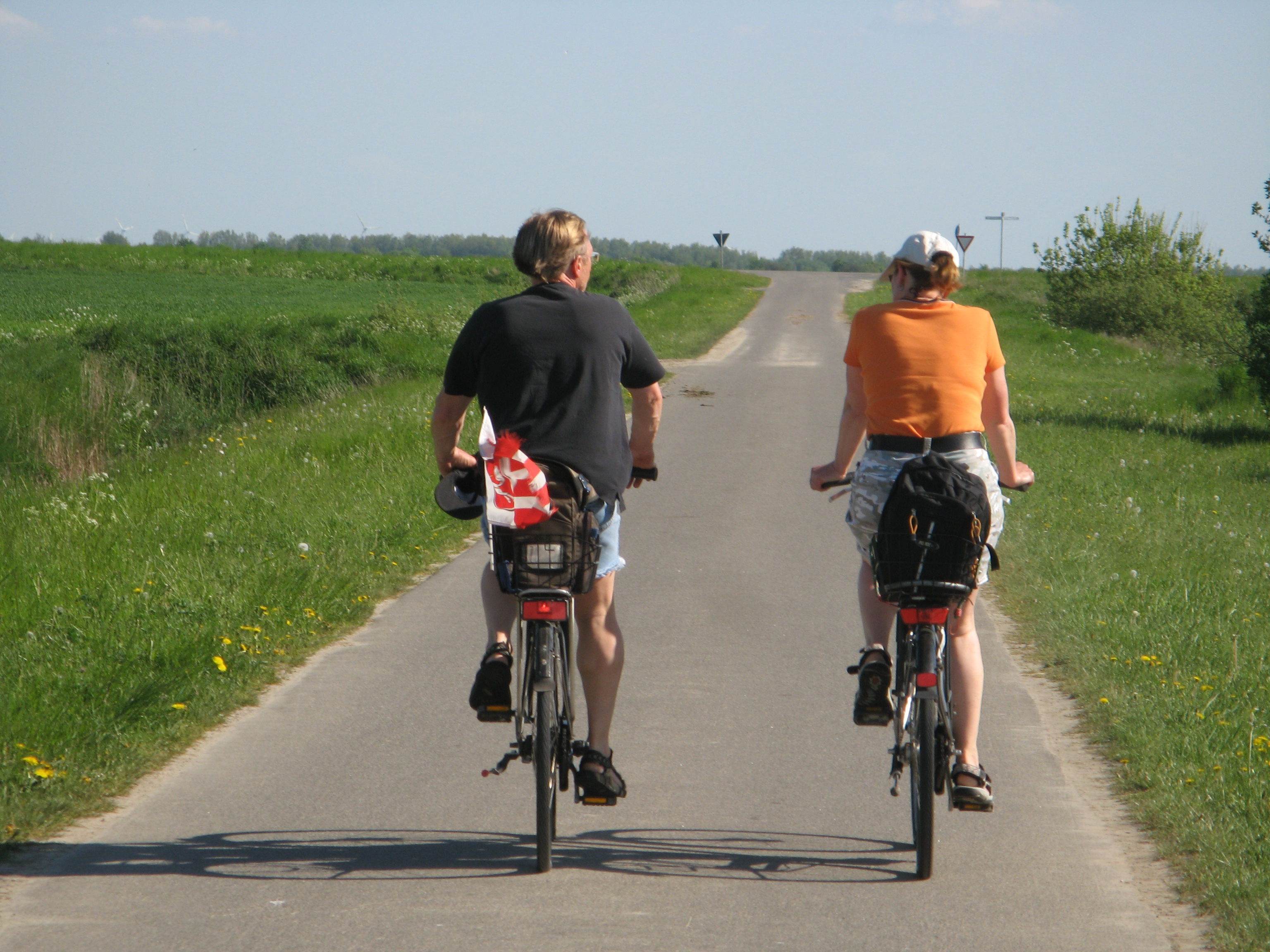 bikers in the dithmarschen speicherkoog with flag of dithmarschen